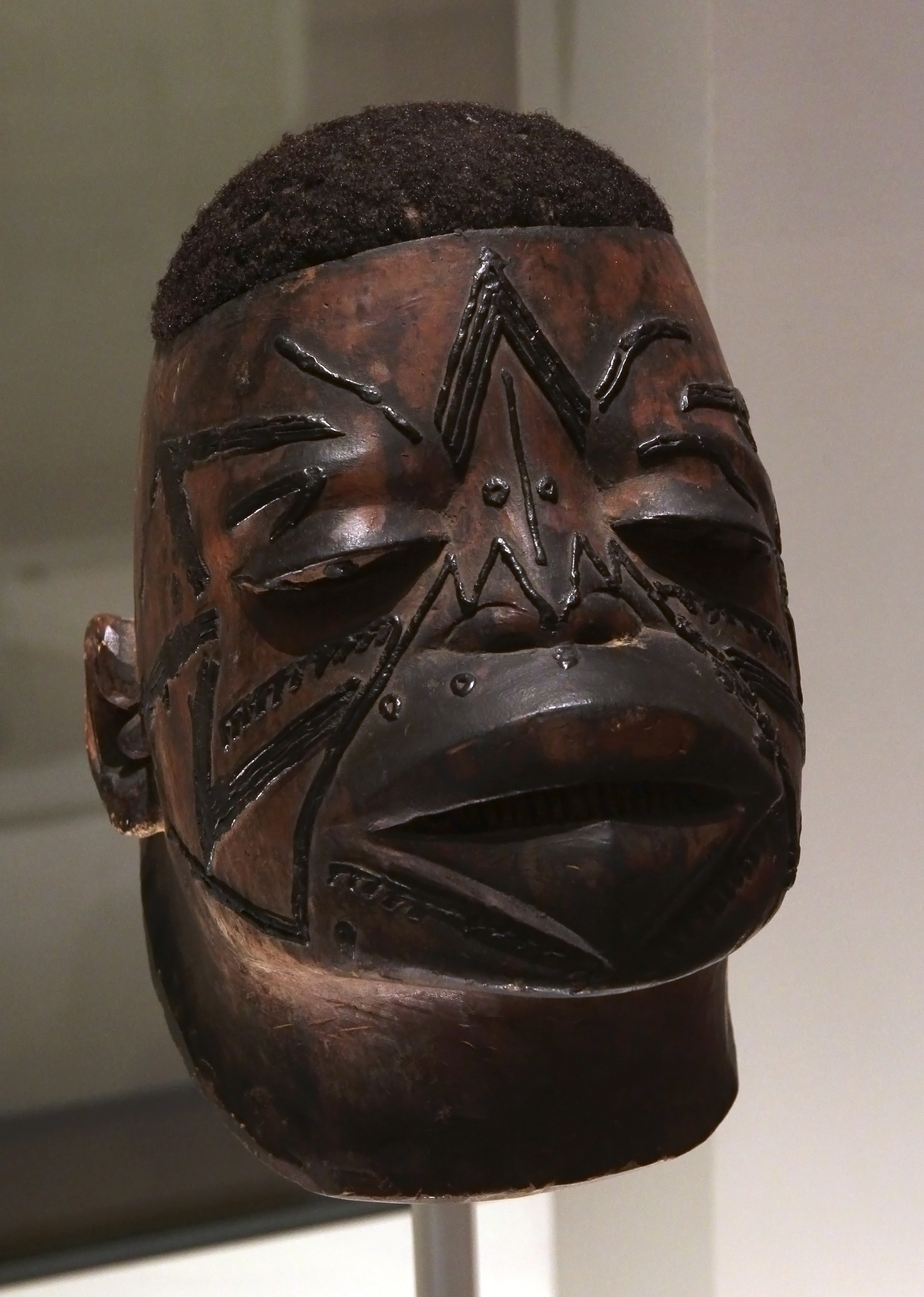 Mask made of wood, hair, wax and pigment. Makonde people, Mozambique, 19th century. Room 25, British Museum. Ethno 1958 AF 12.1